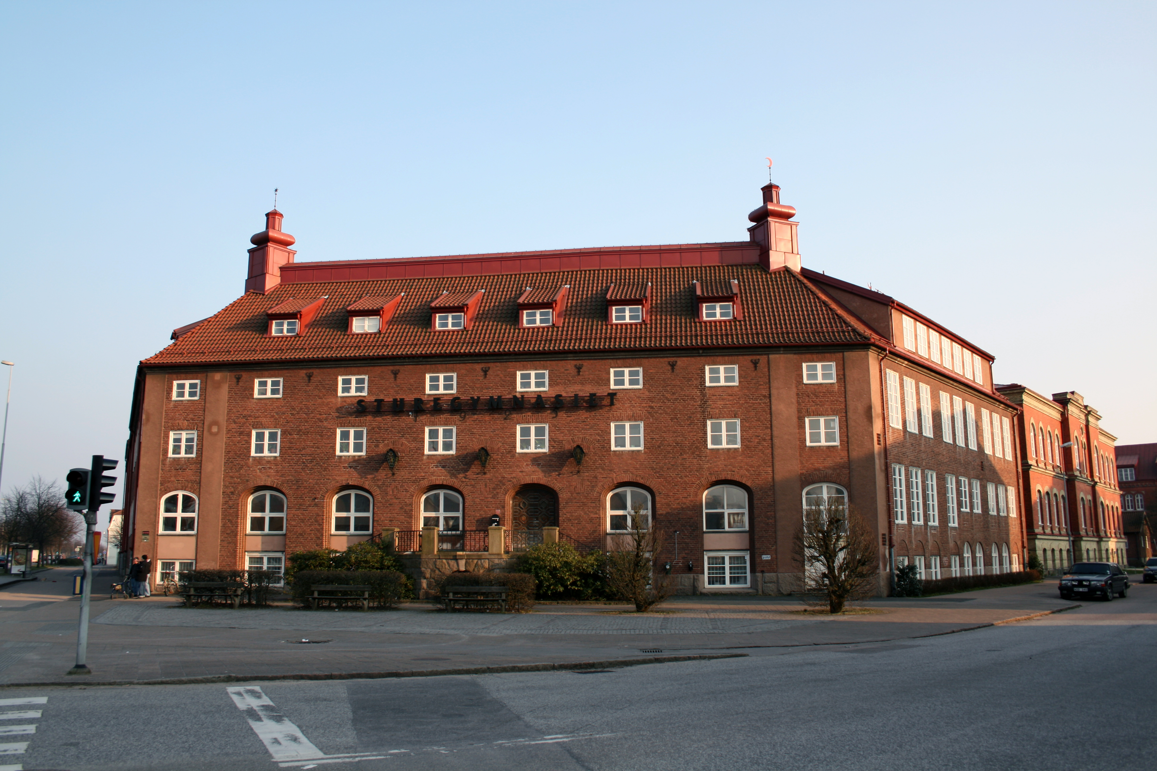 Sturegymnasiet in Halmstad.